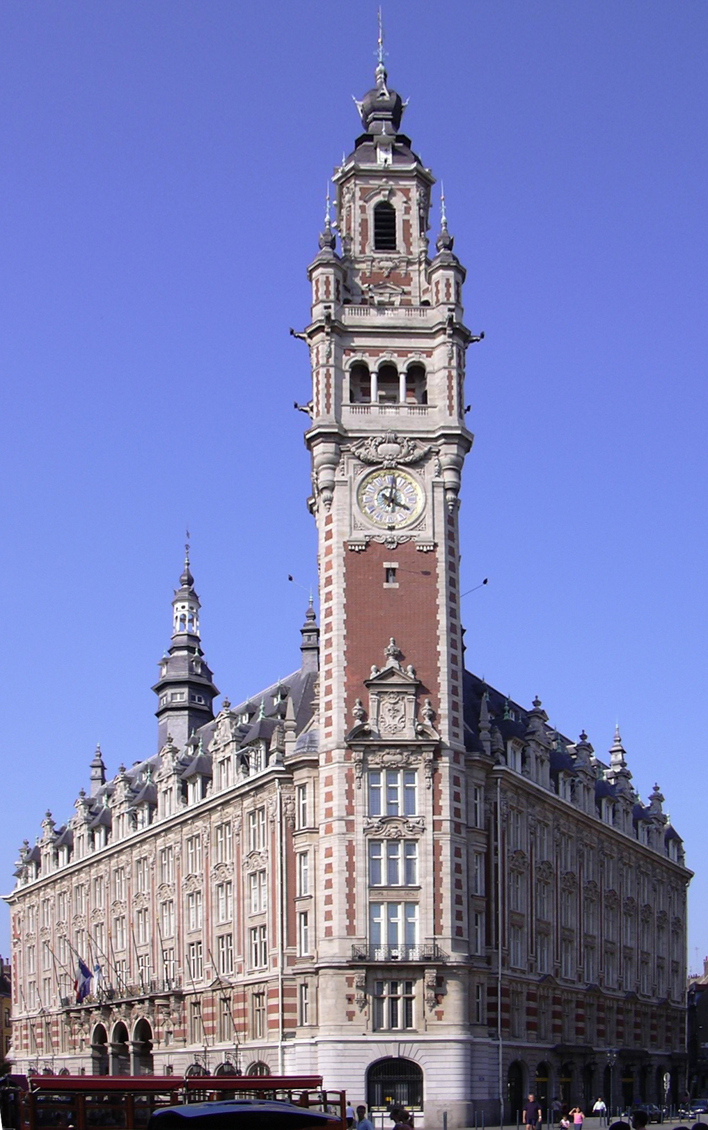 Belfry of the chamber of commerce in Lille (France). Photo taken on Sept. 21st 2003.